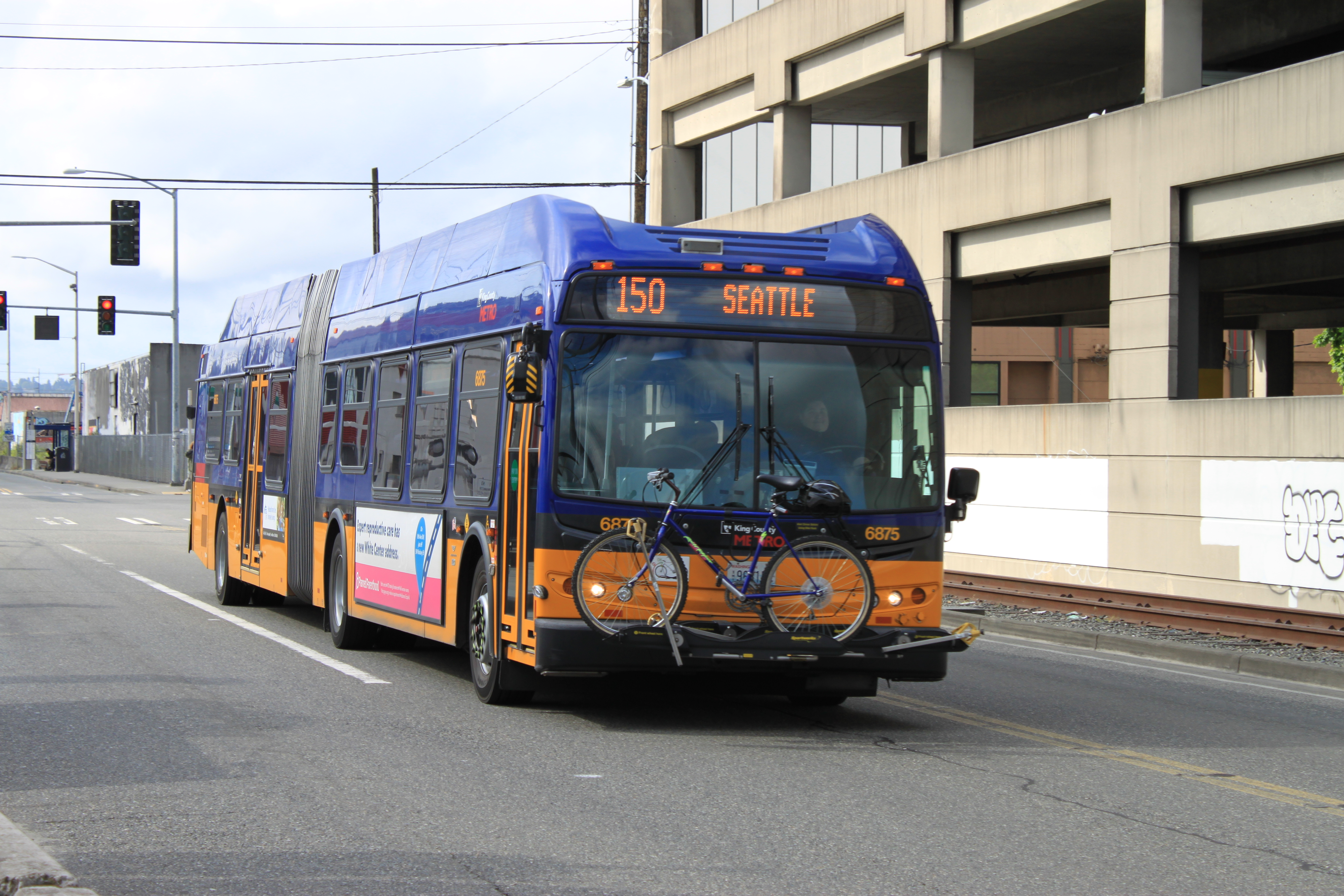 2011 New Flyer DE60LFR on King County Metro Route 150, in Seattle